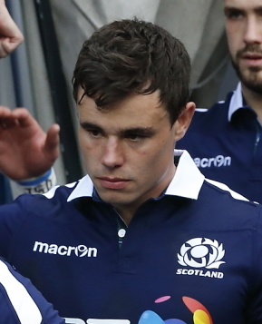 2017.06.17.14.59.20-Scots running on The 2017 mid-year rugby union international, 17 June 2017, Australia vs Scotland at Allianz Stadium, Sydney